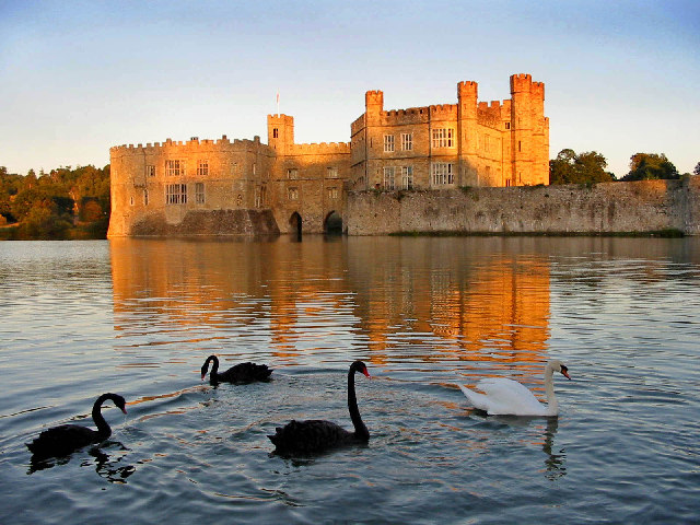 Leeds Castle at dusk.